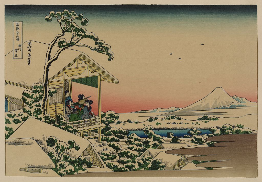 Part of the series Thirty-six Views of Mount Fuji.